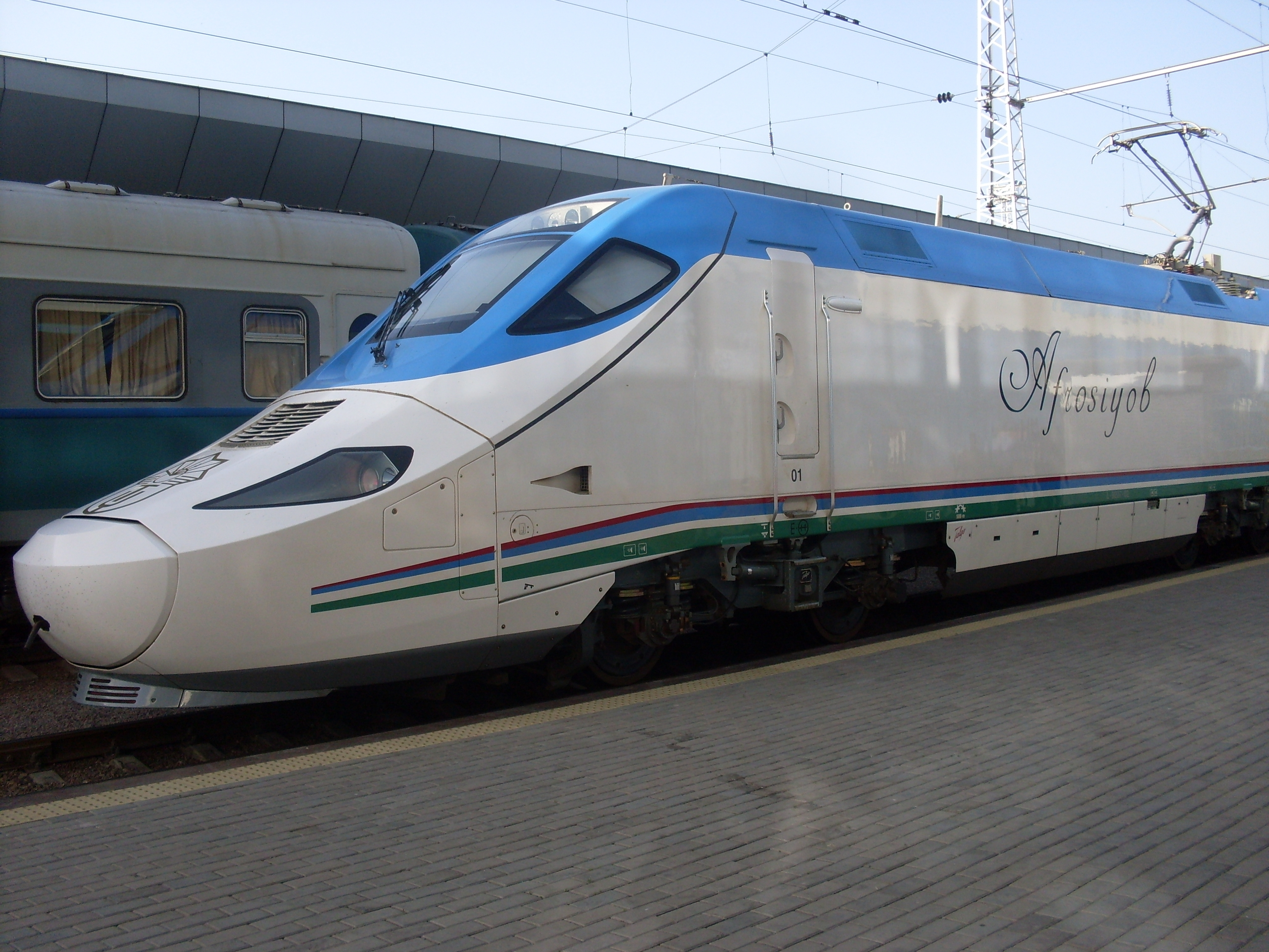 Hi-speed trains Afrosiyab (Uzbekistan)